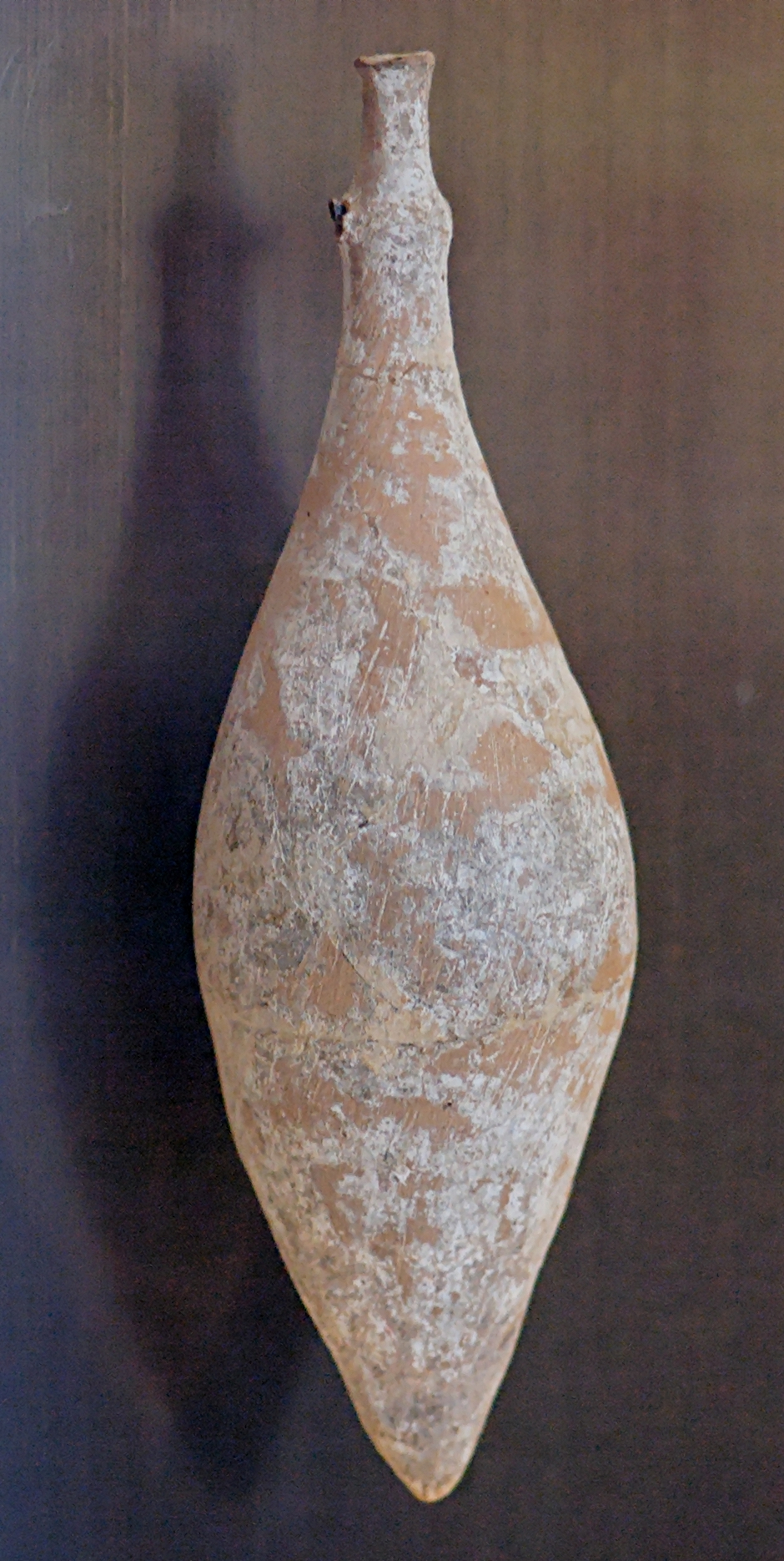 Phormiskos (litt. “little basket”, pouch-shaped vessel): imitation of a bag for the game of knuckle-bones. Terracotta, Hellenistic era, Theban work. Found in Thebes.